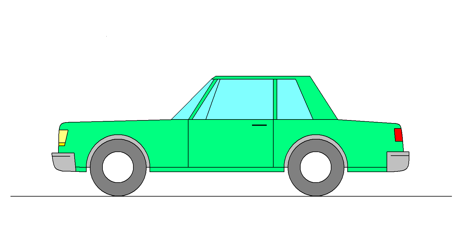 Cartype Sedan